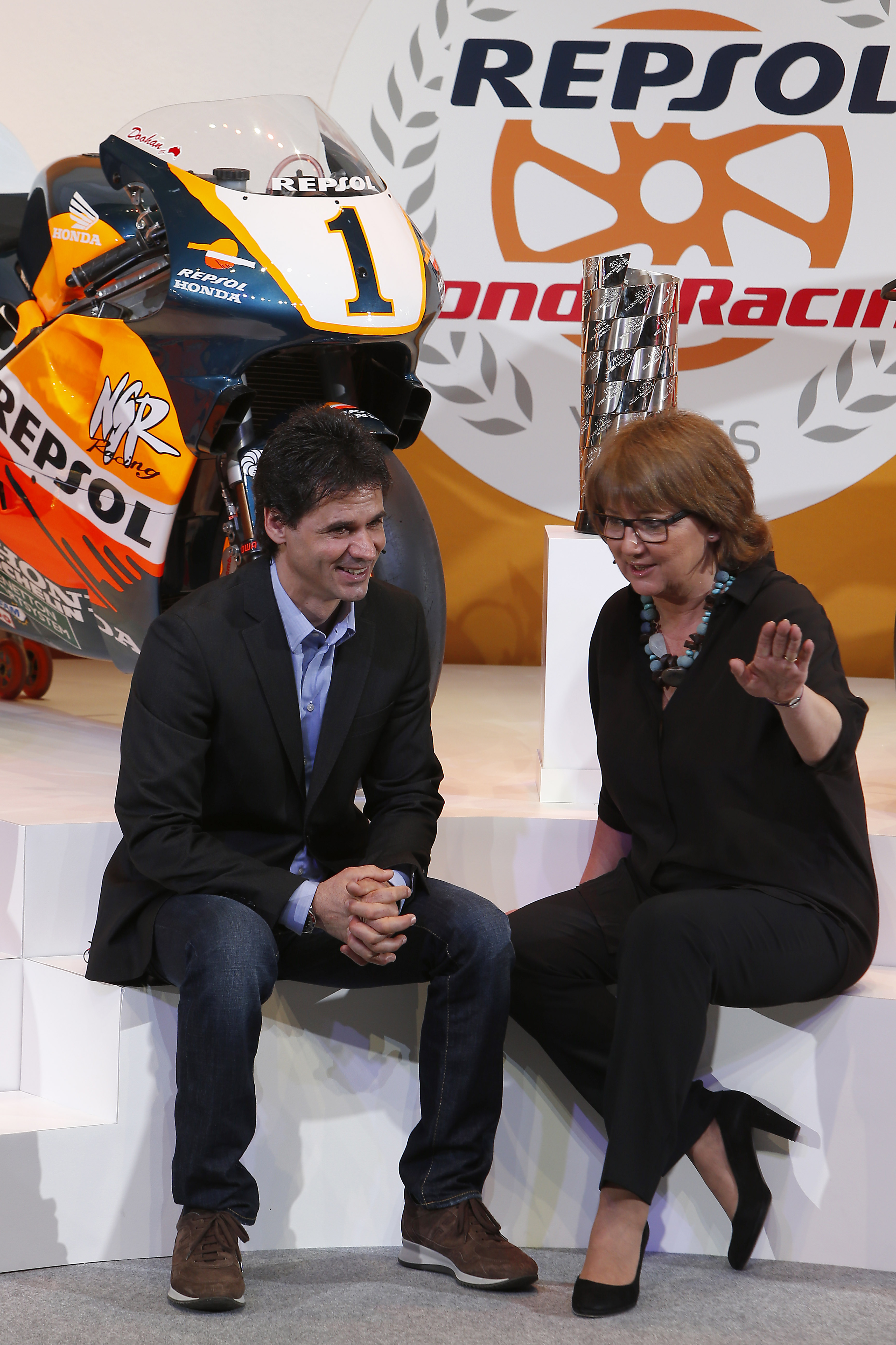 Àlex Crivillé, 1999 500cc world champion, being interviewed by Spanish journalist Olga Viza during the 20th anniversary of the Repsol Honda team, with all of the bikes of riders that have won at least one title or more during this period in the back.